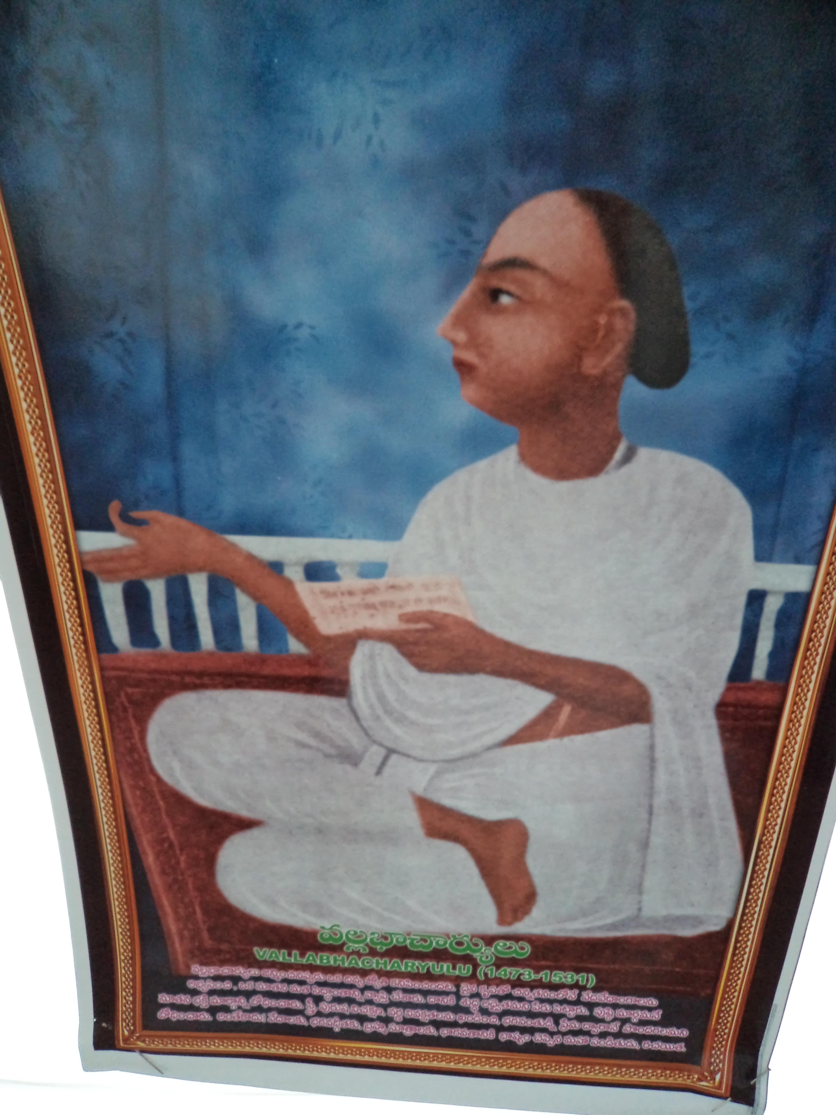 Portrait of Vallabhacharyudu